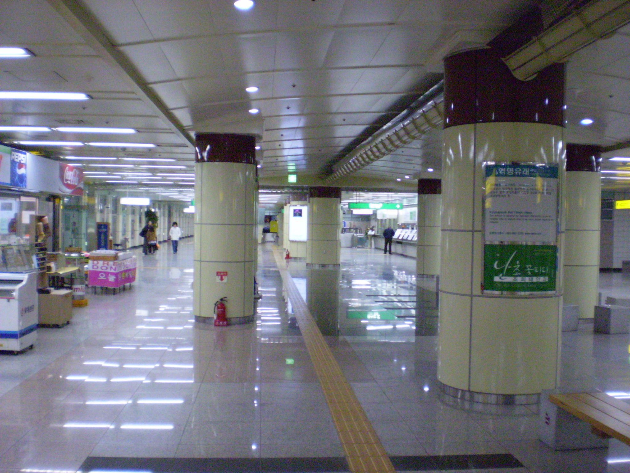 Interior of the Kyungpook National University Hospital subway station (Line 2) in Daegu, South Korea.